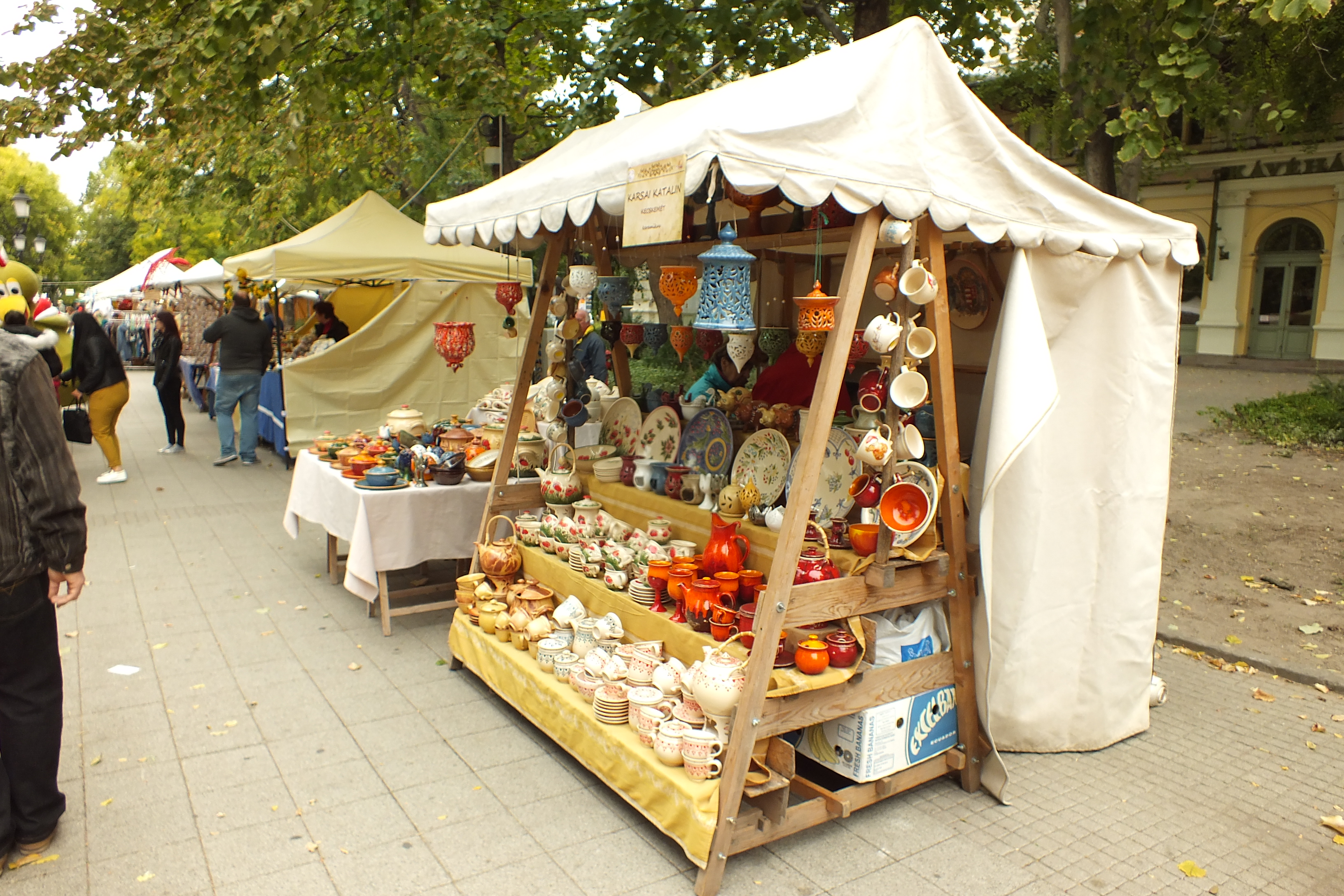 Annual city day fair in Kecskemеt